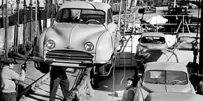 The year is 1954. Saab vehicles are loaded onto a ship in Stockholm to be exported to Finland.